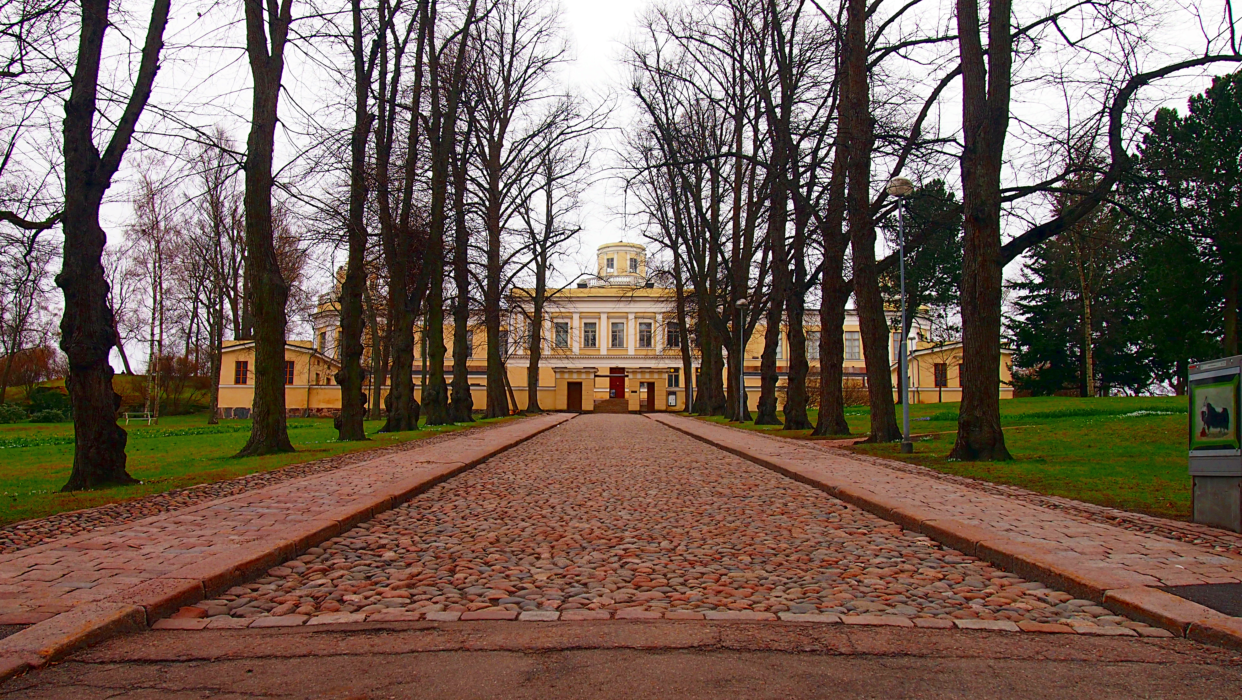 The street Kopernikuksentie in Helsinki, Finland.